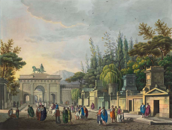 Alessandro Sanquirico's set design from the 1827 La Scala Production of Giovanni Pacini's opera, L'ultimo giorno di Pompei. Hand-colored aquatint. Raccolta di varie decorazioni sceniche inventate ed eseguite per il R. Teatro alla Scala di Milano (Collection of Various Scenic Decorations Designed and Executed for the Royal Theater at La Scala, Milan), about 1827–32, Carlo Sanquirico (Italian, active 1820s–1830s) after Alessandro Sanquirico (Italian, 1777–1849).